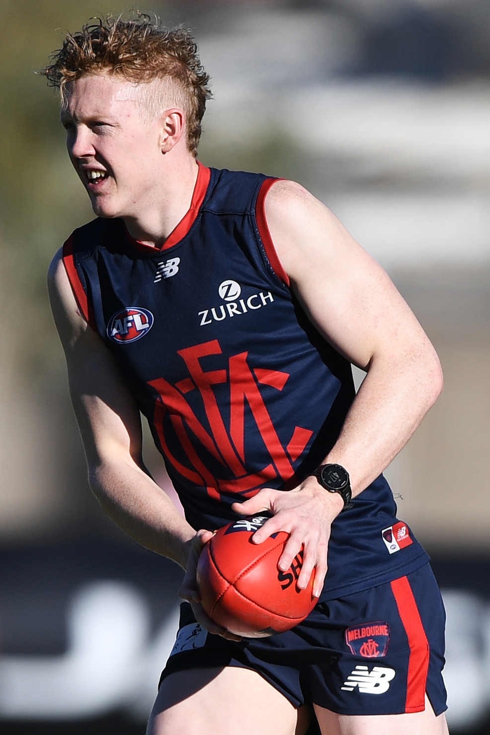 Clayton Oliver of Melbourne during Melbourne training at Traeger Park on Saturday, 20 July 2019 in Alice Springs, Northern Territory.